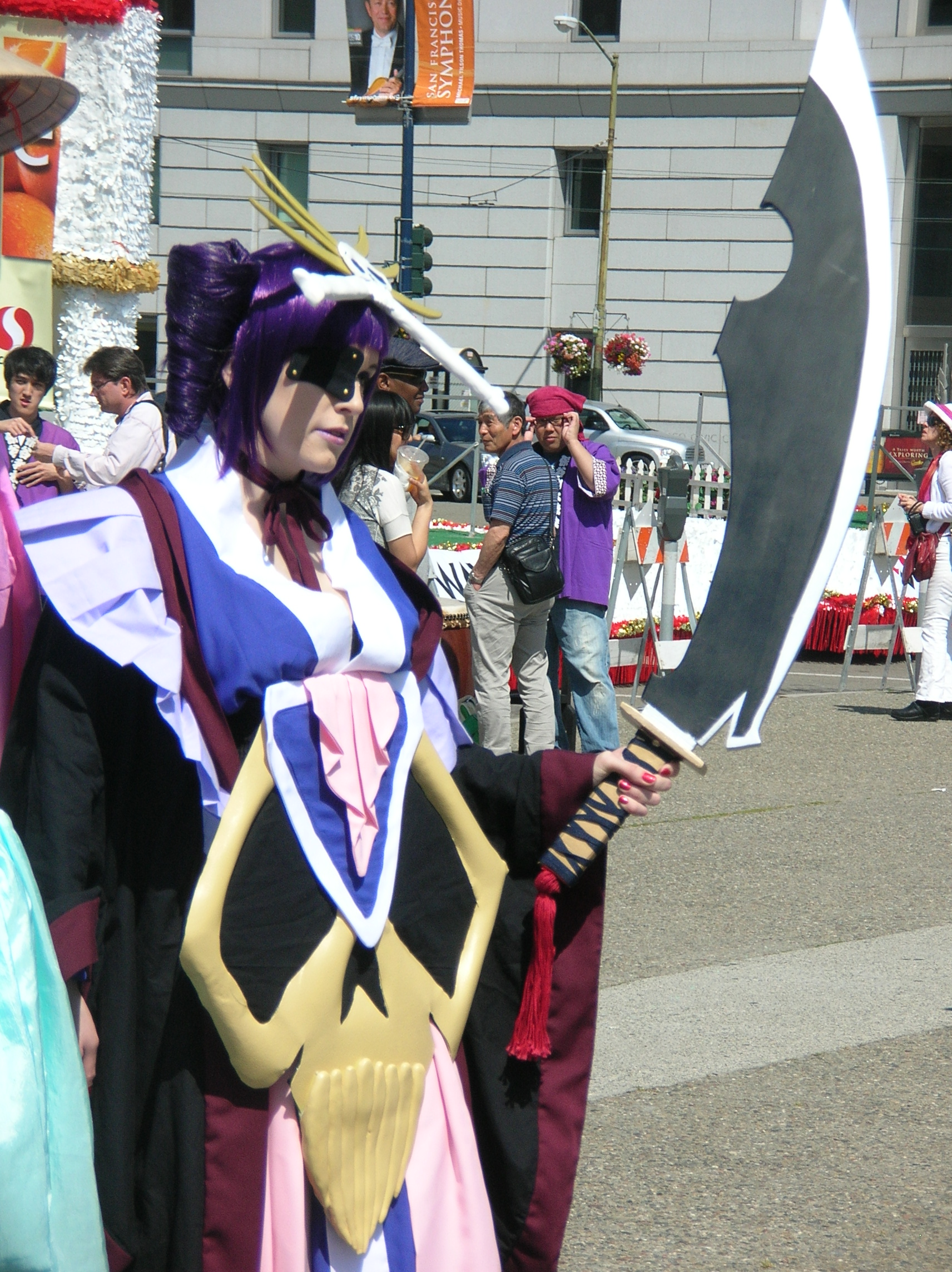 A cosplayer portraying Katen Kyōkotsu, the zanpakutō of Shunsui Kyoraku, from Bleach competing in the anime costume contest at the 2010 Northern California Cherry Blossom Festival.